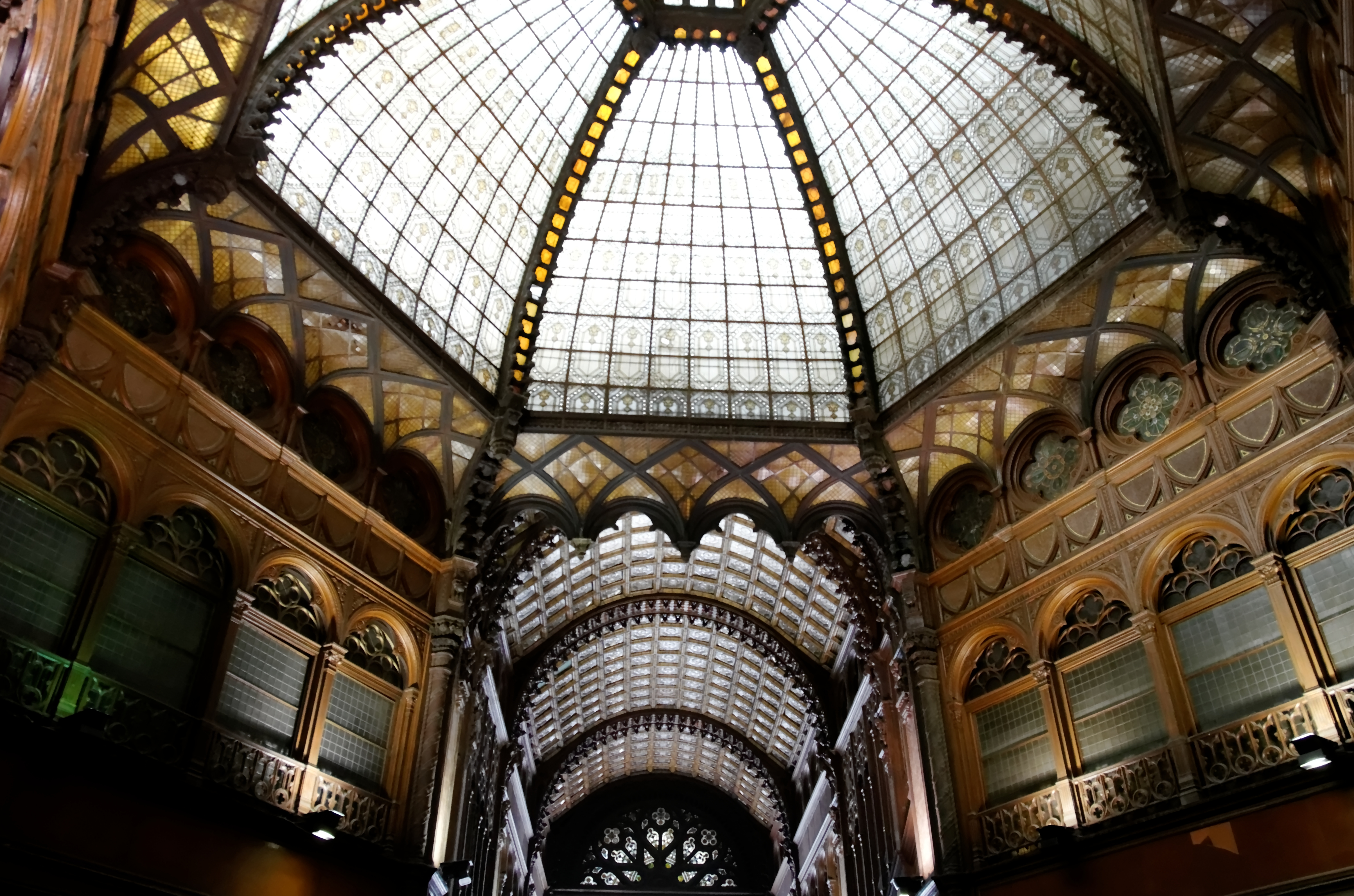 Párizsi udvar passage in Budapest, Hungary. Located at the corner of Kígyó utca and Petőfi Sándor utca